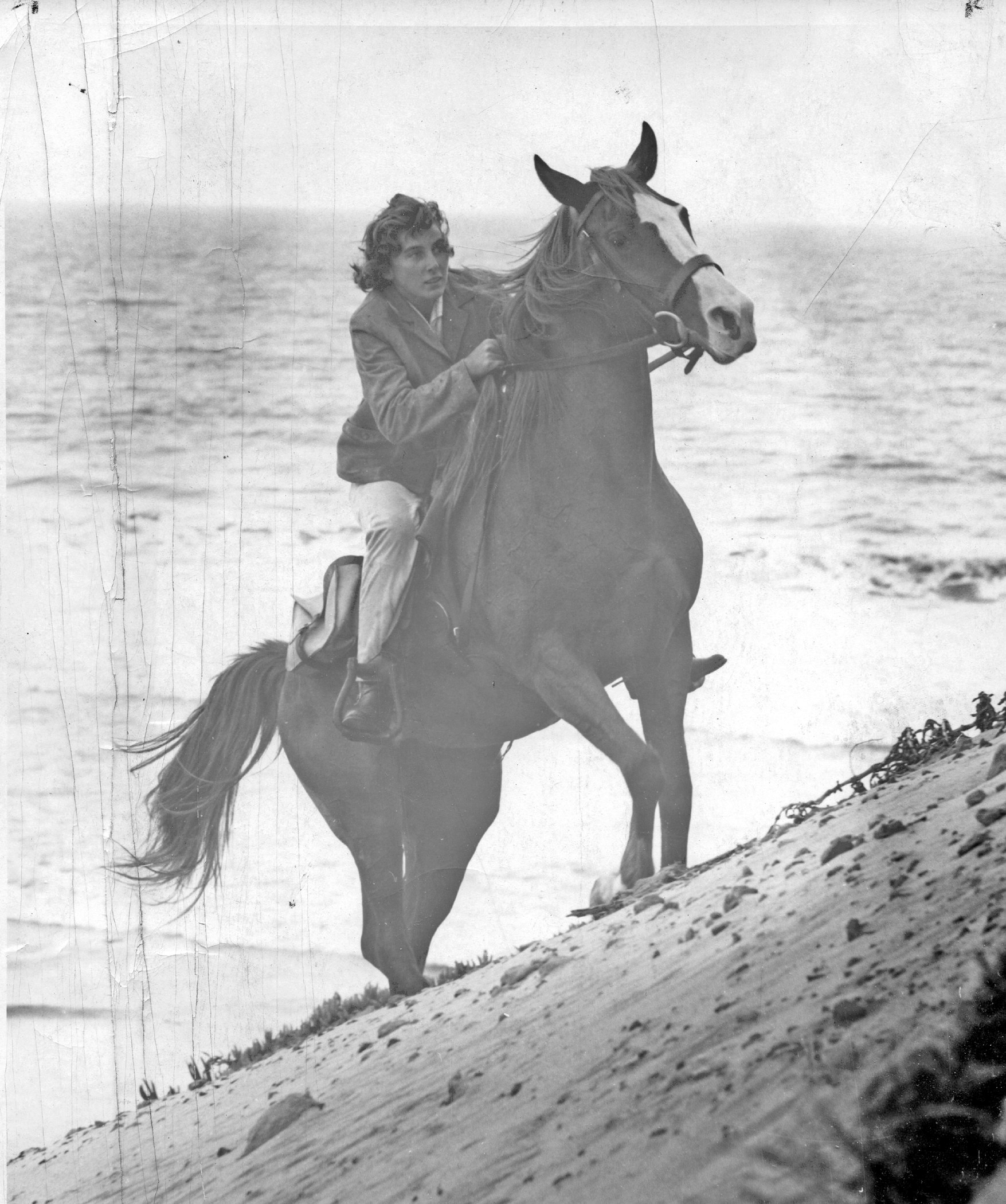 Linda Tellington Jones riding her champion Arabian, Bint Gulida.